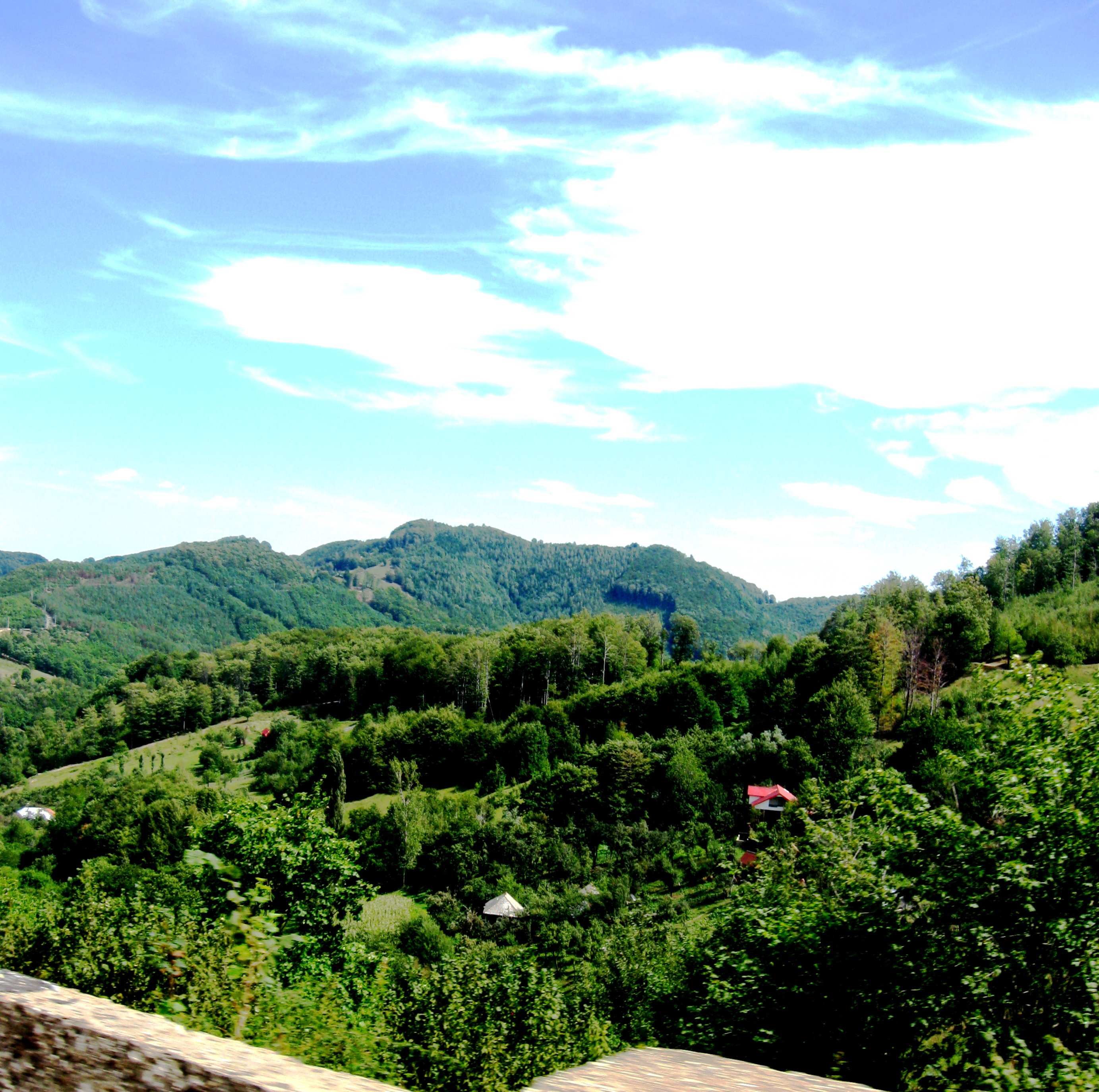 Mehedinţi Mountains, Romania. Seen from in Godeanu, in Obârşia-Cloşani commune (Mehedinţi County).